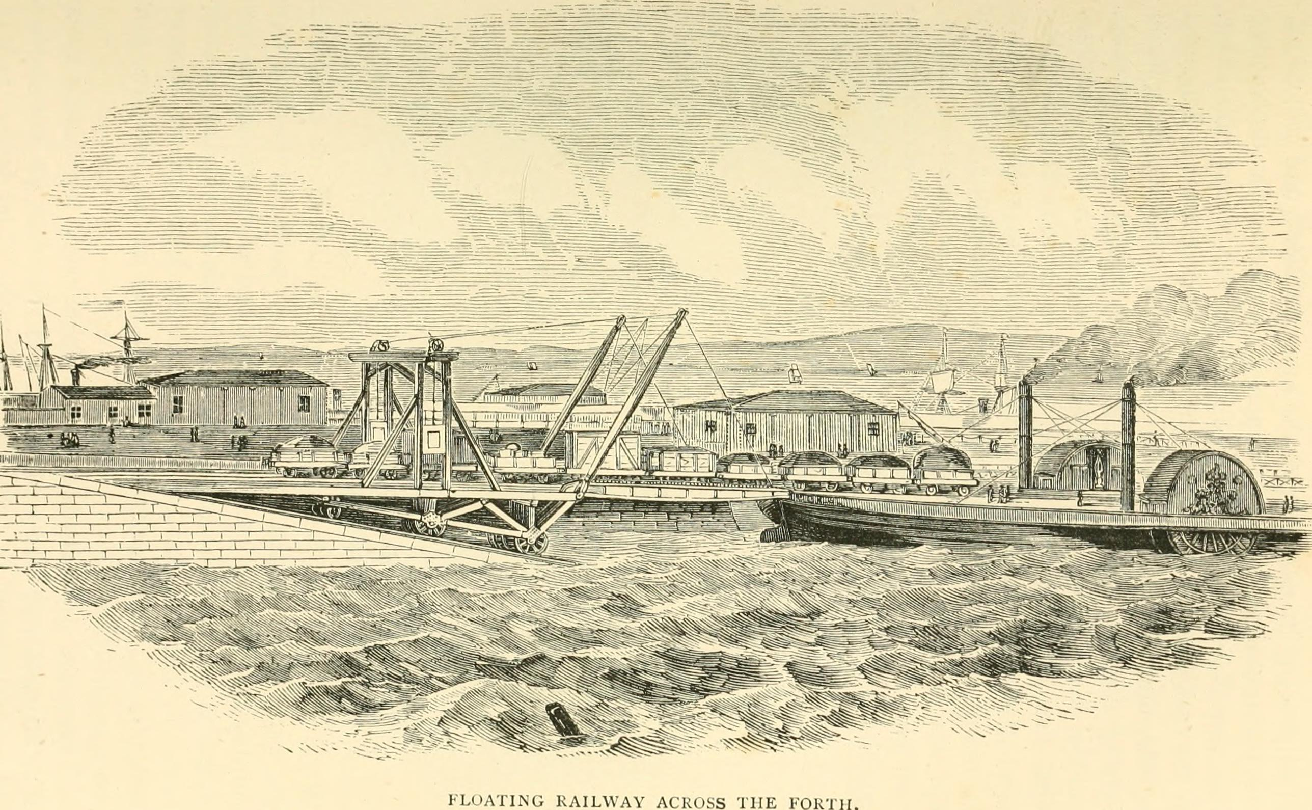 Title: Our iron roads: their history, construction and administration Year: 1883 (1880s) Authors: Williams, Frederick Smeeton, 1829-1886 Subjects: Railroads -- History Railroads -- Great Britain Publisher: London : Bemrose & sons Text Appearing Before Image: DRAWBRIDGE OVER THE ARUN. between the platform and the vessel ; and these are elevatedor depressed by means of a winch on each side of a staging,eighteen feet high, erected across the platform. The high-level bridge over the deep ravine through whichthe Tyne flows between Newcastle and Gateshead, is a veryremarkable structure. It forms the junction between the Yorkand Newcastle and the Newcastle and Berwick Railways. Itwas proposed by Mr. Hudson, and designed by Mr. RobertStephenson. The first difficulty in building it was to secure good founda-tions for the piers. The piles to be driven were so large thatNasmyths Titanic steam-hammer had to be used to drive FLOATING RAILWAY ACROSS THE FORTH. 201 m Text Appearing After Image: them. By the common pile a comparatively small mass ofiron fell with great velocity for a considerable height—the 20; OUR IRON ROADS. velocity being in excess and the mass deficient, and calculated,like the momentum of a cannon ball, rather for destructivethan impulsive action. In the case of the steam pile-driver,on the contrary, the whole weight of a bearing mass is deliveredrapidly upon a driving-block of several tons weight placeddirectly over the head of the pile, the weight never ceasing,and the blows being repeated at the rate of a blow a second,until the pile is driven home. It is a curious fact, that therapid strokes of the steam hammer evolved so much heat thaton many occasions the pile head burst into flame. The firstpile was driven to a depth of 32 feet in four minutes ; and assoon as one was placed, the traveller, hovering overhead, pre-sented another, and down it went, like a pin into a pincushion.